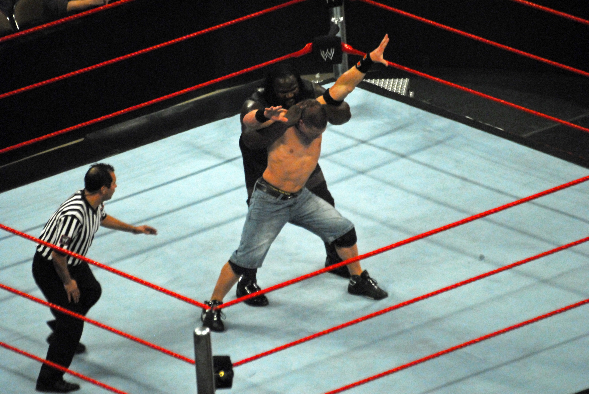 John Cena and Mark Henry